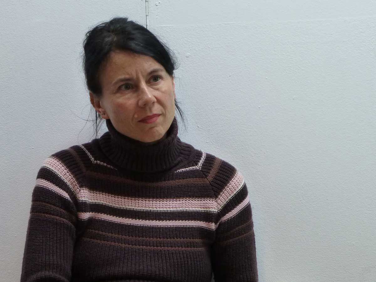 portrait of the organiser Flavia Caviezel at Corner College Zurich during Blackbox event